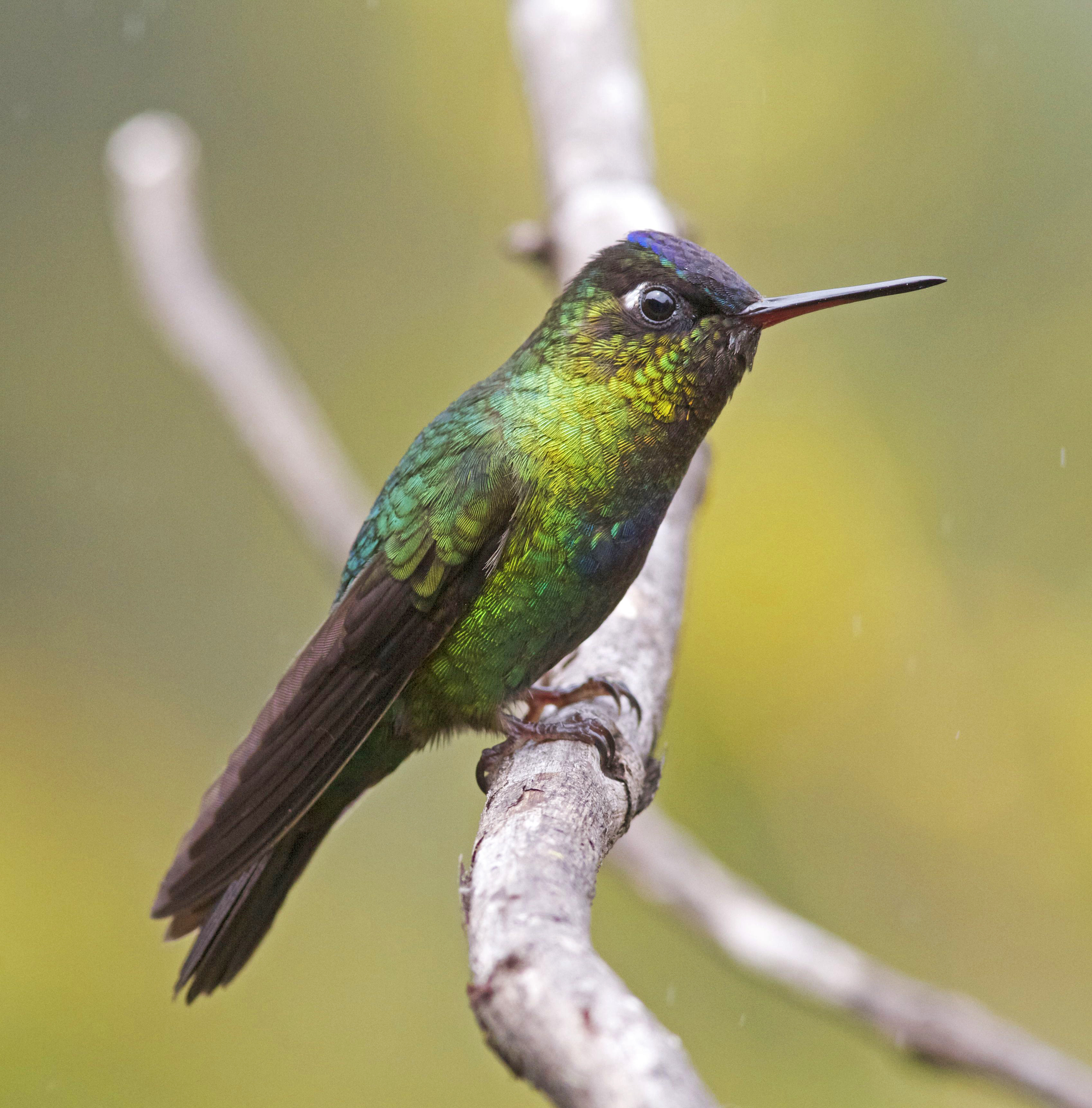 Fiery-throated Hummingbird photo taken at Paraiso del Quetzal, Costa Rica.